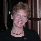 Headshot of Mayann Karinch taken in April, 2007